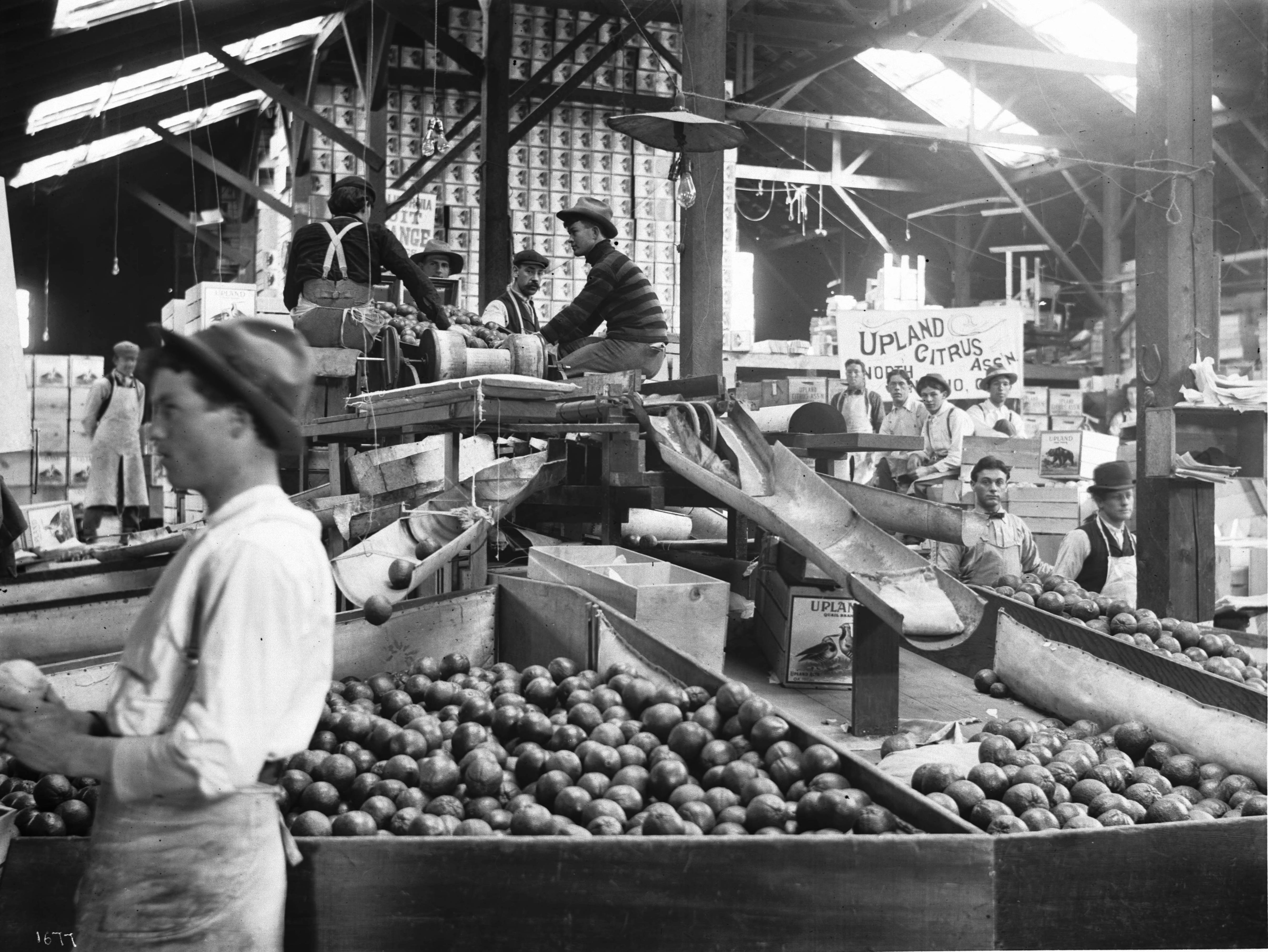 Interior of citrus packing house, Ontario, ca.1905 Photograph of the interior of a citrus packing house in Ontario, ca.1905. Several men man the sorting machine in the foreground which has chutes which spill into bins full of oranges. Several other men are visible standing in the background. A huge stack of orange crates towers over the operation behind. Legible signs include: "Upland Citrus Ass'n, North Ontario, Cal." Call number: CHS-1677 Legacy record ID: chs-m9232; USC-2-1-1-9368 Part of subcollection: Los Angeles Area Chamber of Commerce Collection, 1890-1960 Filename: CHS-1677 Coverage date: circa 1905 Part of collection: California Historical Society Collection, 1860-1960 Type: images Microfiche number: 1-105-30 Repository name: USC Libraries Special Collections Accession number: 1677 Author: Sunkist Archival file: chs_Volume68/CHS-1677.tiff Geographic subject (city or populated place): Ontario Repository address: Doheny Memorial Library, Los Angeles, CA 90089-0189 Geographic subject (country): USA Format (aacr2): 1 photograph : glass photonegative, b&w ; 17 x 22 cm. Rights: Digitally reproduced by the USC Digital Library; From the California Historical Society Collection at the University of Southern California Subject (adlf): agricultural sites Project: USC Repository Contributing entity: California Historical Society Date created: circa 1905 Publisher (of the digital version): University of Southern California. Libraries Format (aat): photographs Geographic subject (state): California Subject (file heading): Agriculture -- Crops -- Citrus -- Processing Format: glass plate negatives Access conditions: Send requests to address or e-mail given. Phone (213) 821-2366; fax (213) 740-2343. Geographic subject (county): San Bernardino Subject (lcsh): Citrus fruits; Citrus fruit industry; Agriculture Subject: Industries; Citrus